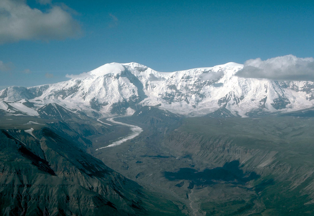 Mount Jarvis, 4,091 m (13,421 ft) high, is the youngest volcano in the eastern Wrangell Volcanic Field. Mount Jarvis was active approximately 1 to 2 million years ago. View is to the southweast, with the Jacksina Glacier flowing away from the mountain towards the camera. Wrangell-St. Elias National Park and Preserve, Alaska, USA